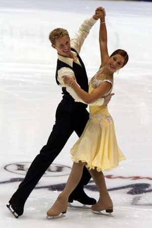 Emily Samuelson & Evan Bates perform the Viennese Waltz compulsory dance at the 2007-2008 Junior Grand Prix event in Lake Placid, New York, United States. They placed first in this segment of the competition and won the gold medal overall.